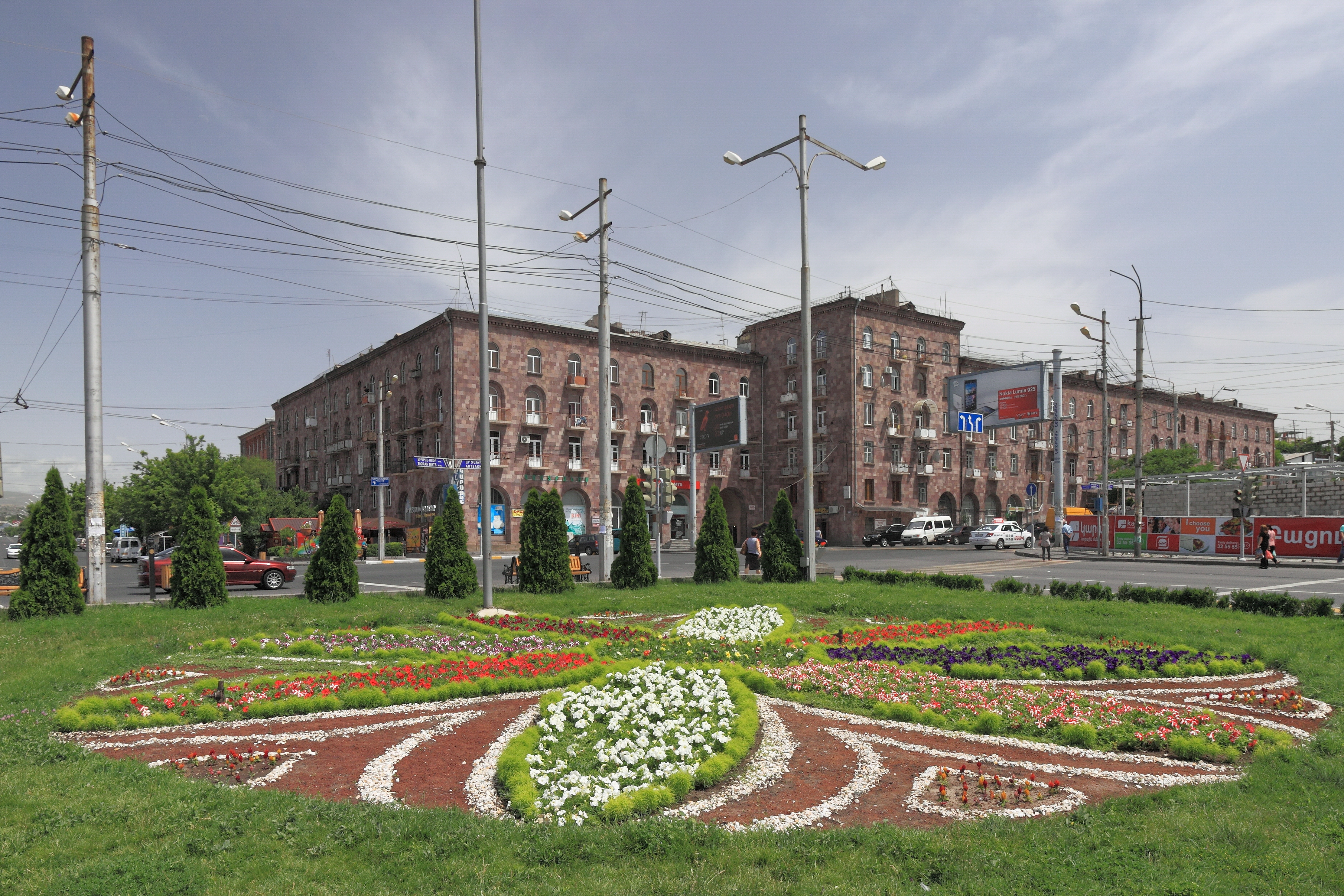 Flower bed on Sasuntsi Davit Square. Erebuni District. Yerevan, Armenia.